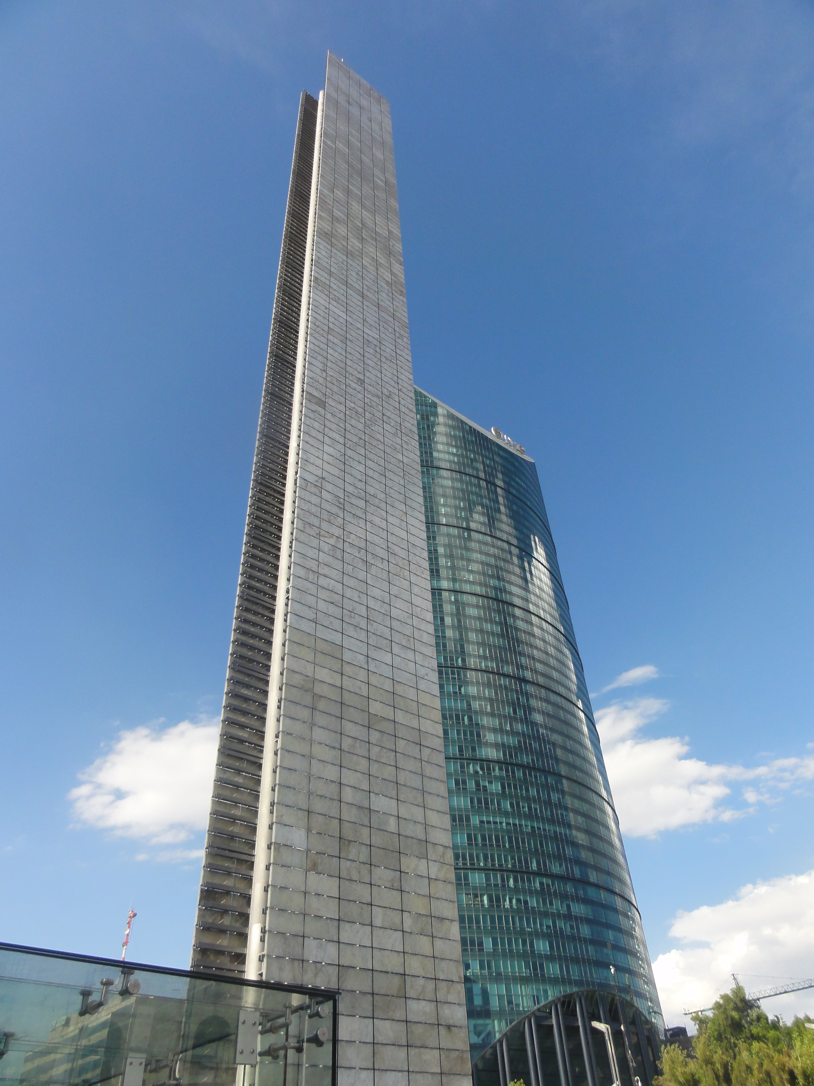 Estela de Luz Ciudad de México DF Mexico City